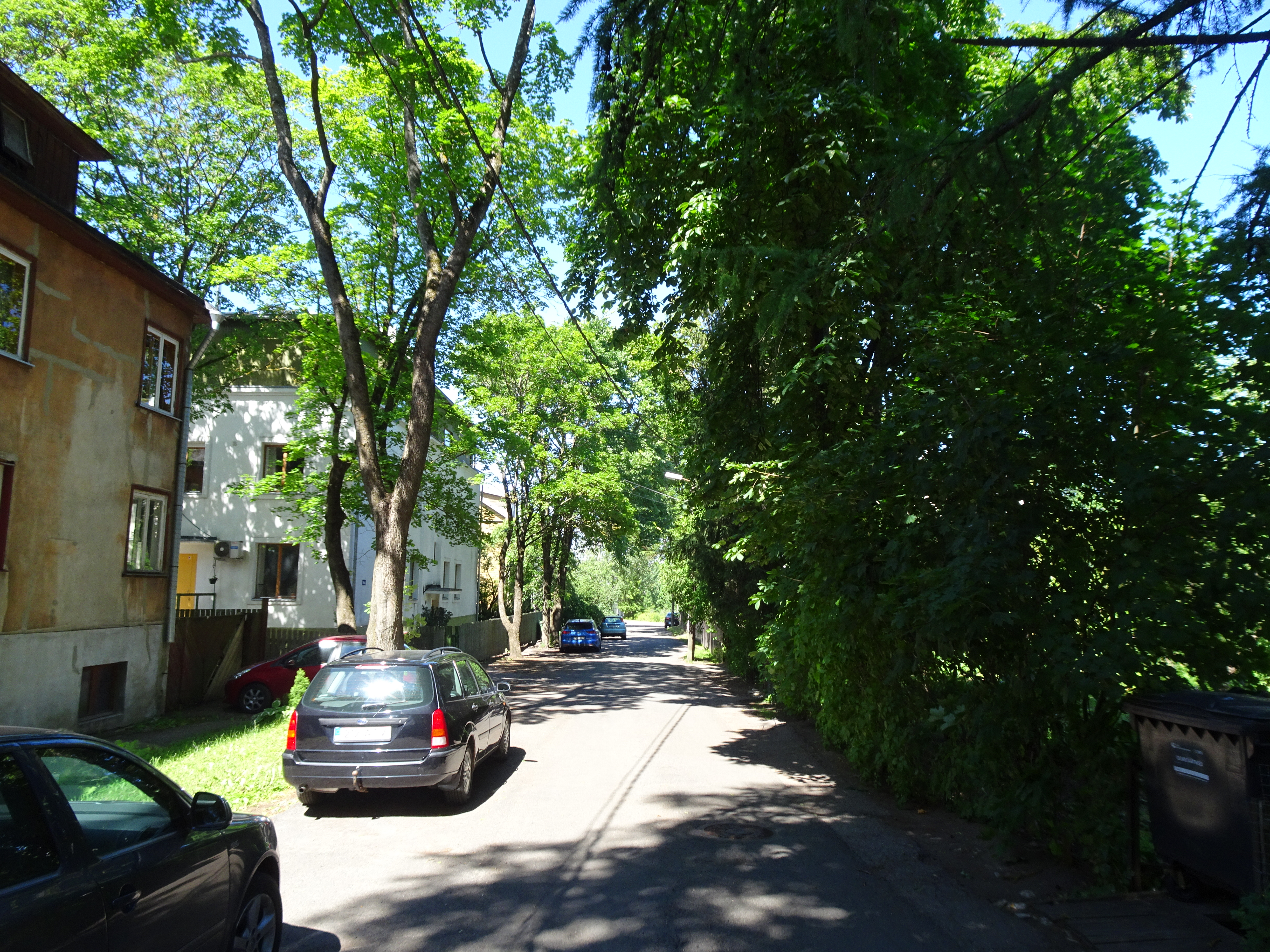 Oksa Street in Tallinn, Estonia